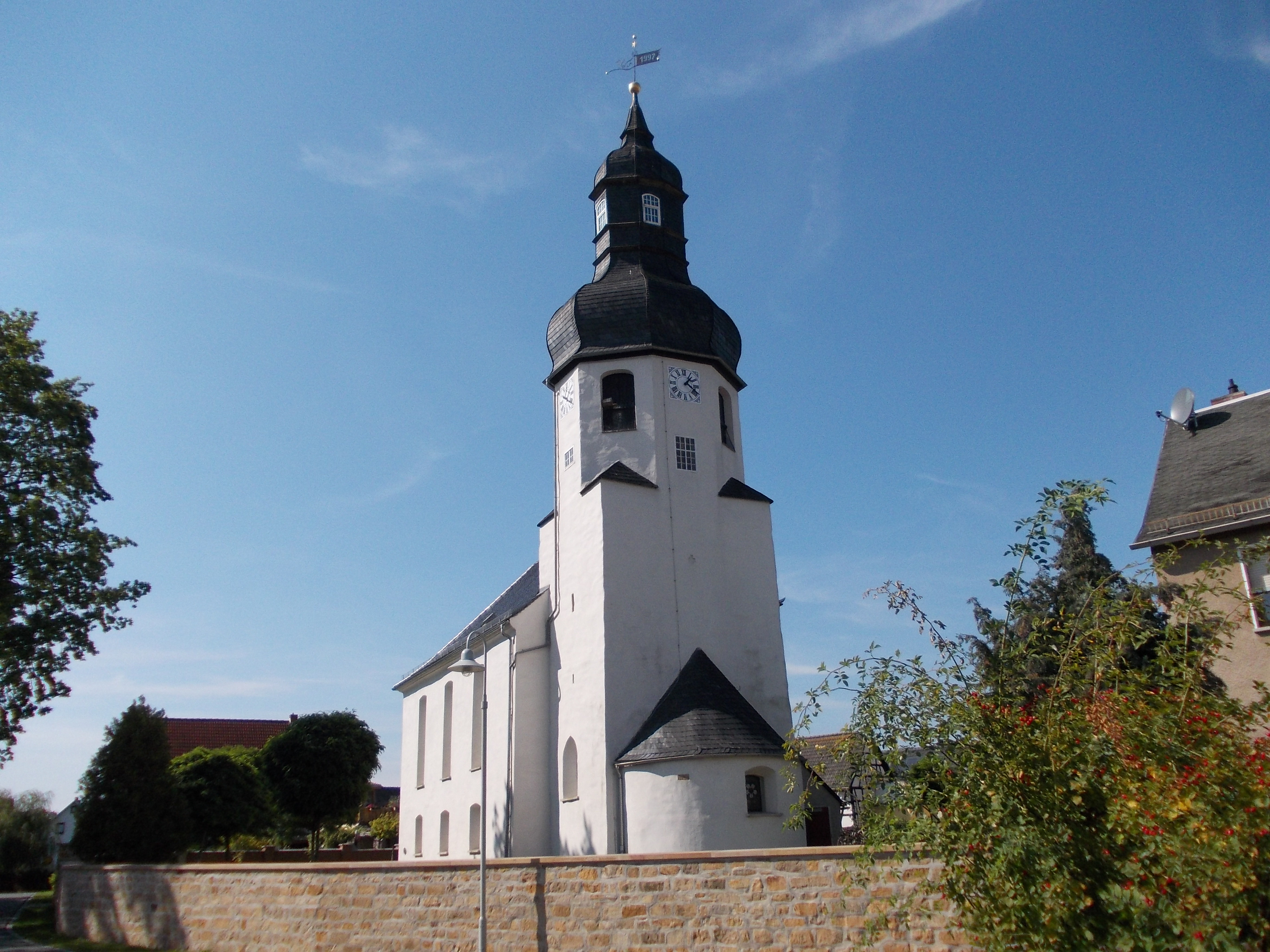 The church of Korbussen (Greiz district, Thuringia)